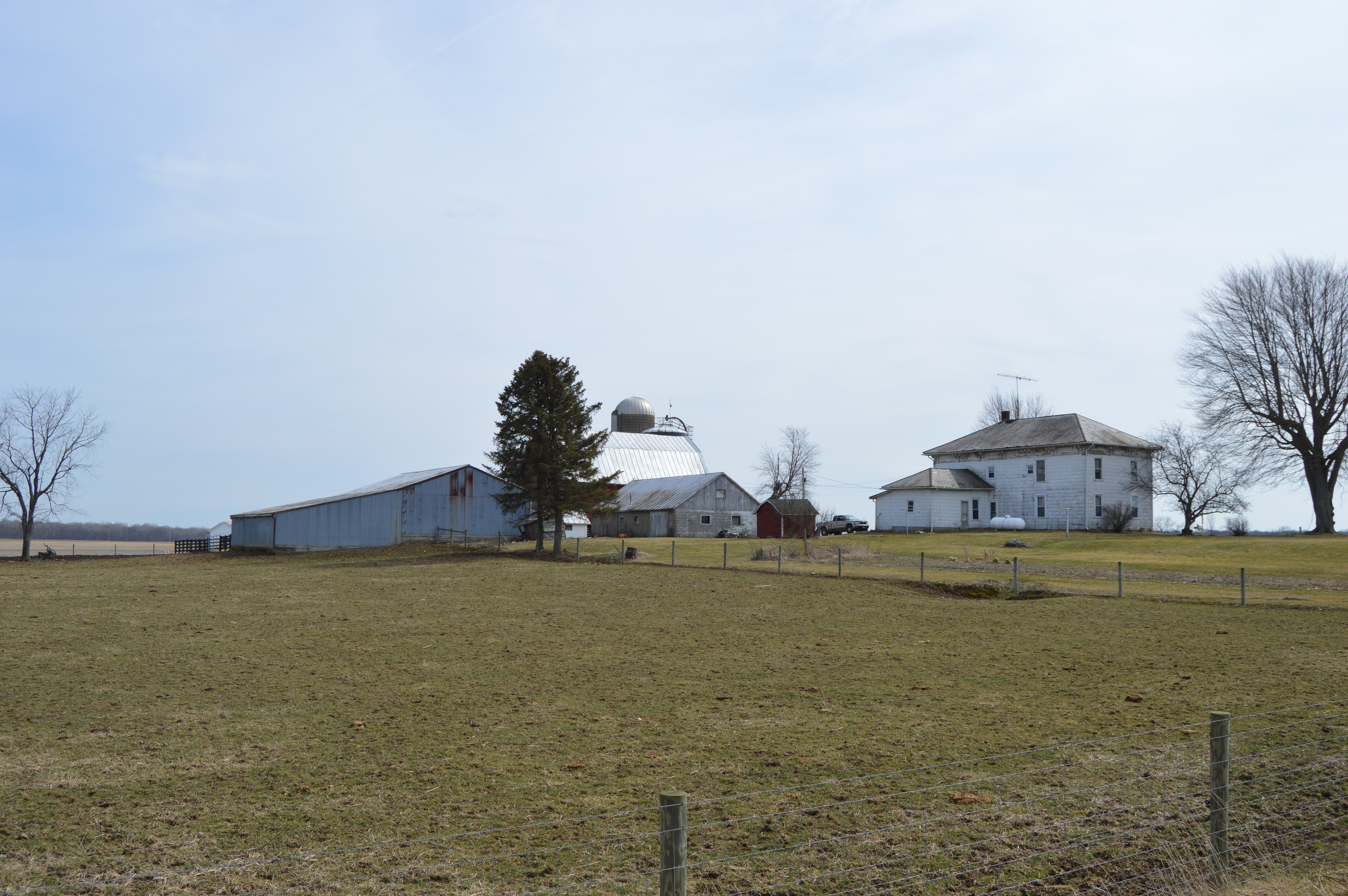 Overview from the northwest of a farmstead on the northeastern corner of the intersection of Sockman and Bryant Roads, south of Fredericktown, in Wayne Township, Knox County, Ohio, United States.